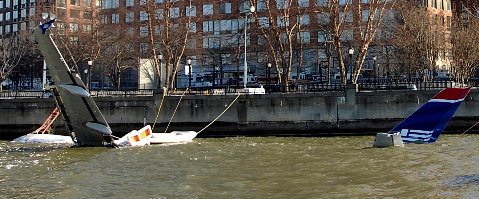 The partially submerged US Airways Flight 1549 airplane, the day after crash-landing in the Hudson River, tied up next to Battery Park City on Jan. 16, 2009 and awaiting being lifted out of the water.